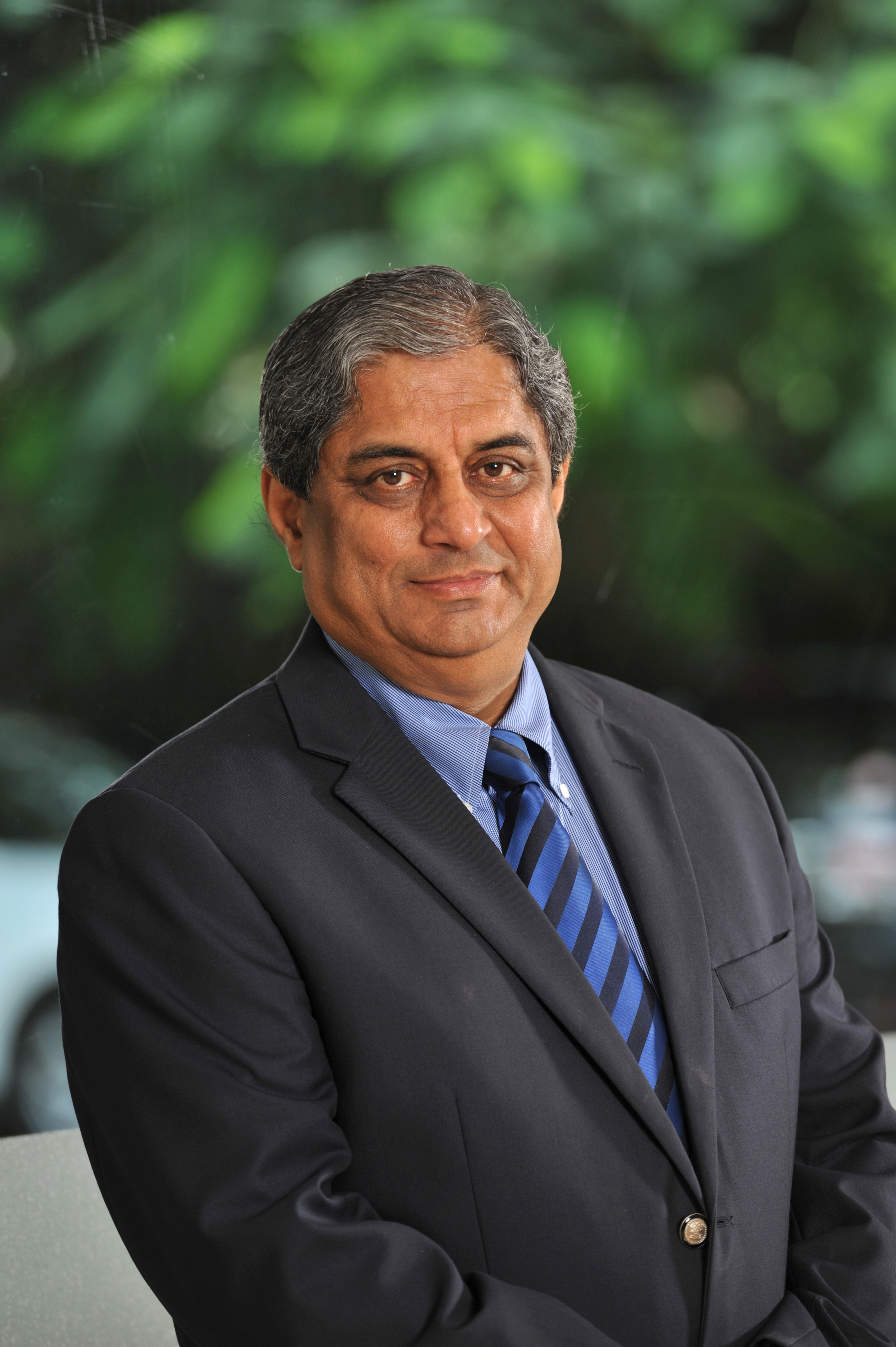 Headshot image